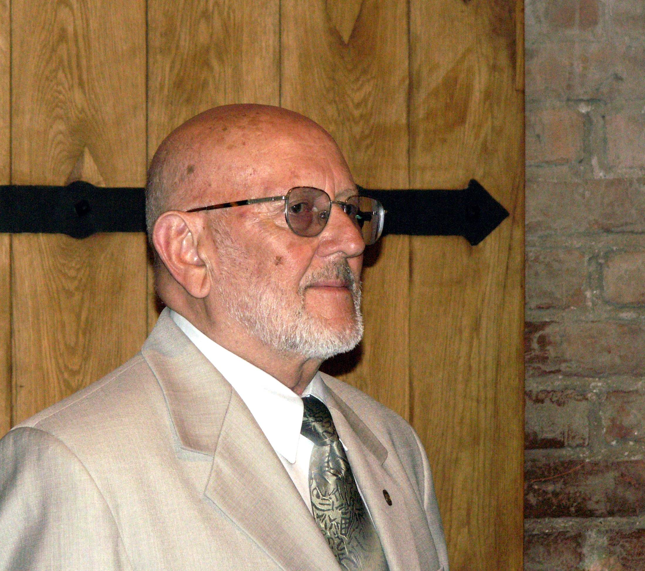 Gediminas Ilgūnas, Historian, politician of Lithuania